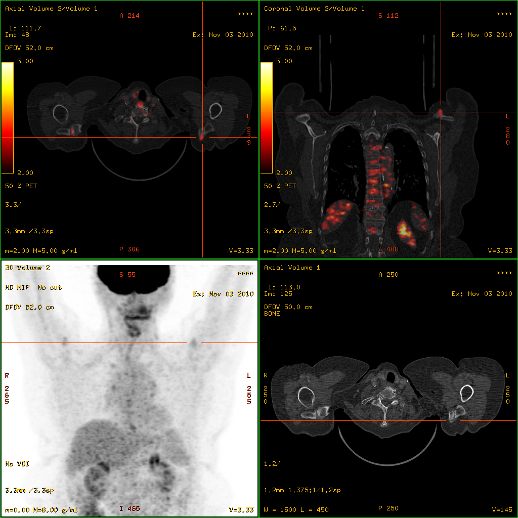 FDG PET/CT of an osteoarthritis